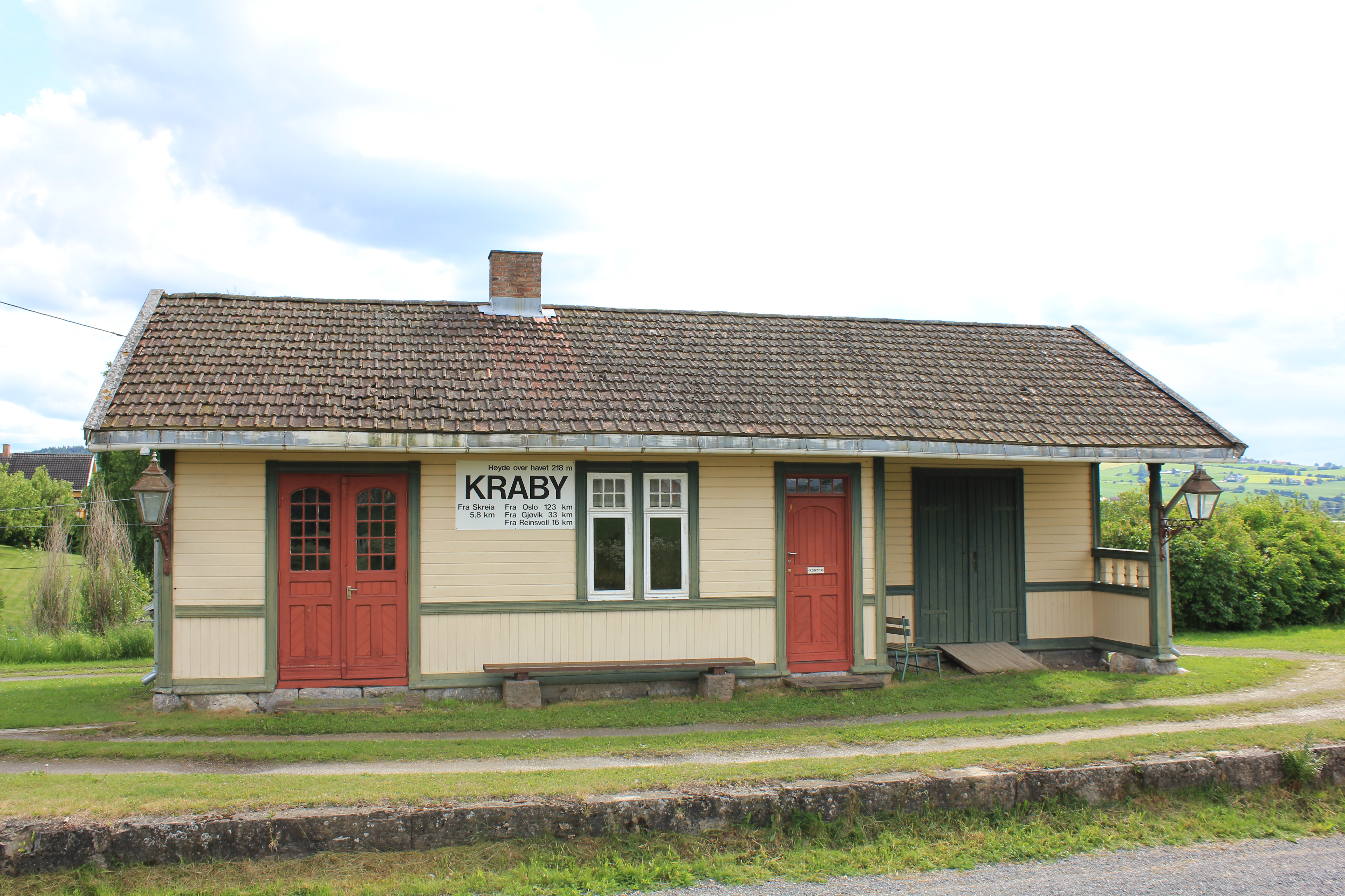 Kraby railroad station at shut down Skreia railroad tracks, Østre Toten, Oppland, Norway.